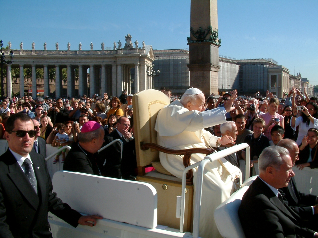 Pope John Paul II during General Audiency, 29 September 2004, St. Peter Square, Vatican